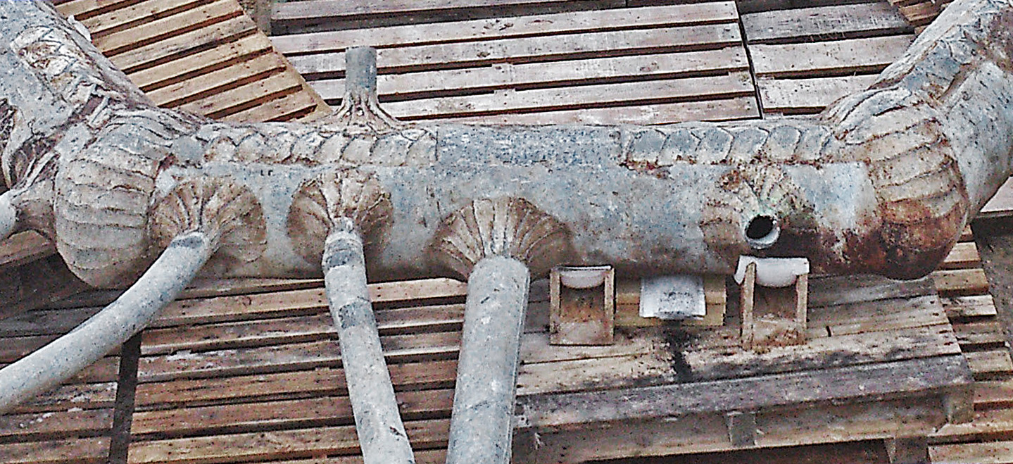 Lead spider of the bassin of Latone in Versailles - Detail of the welds with a ladle.